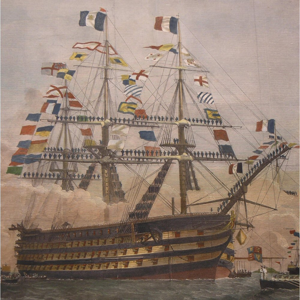 The Bretagne at Cherbourg in 1858